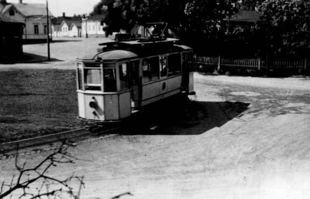 Tram in Palotori Square, Vyborg.